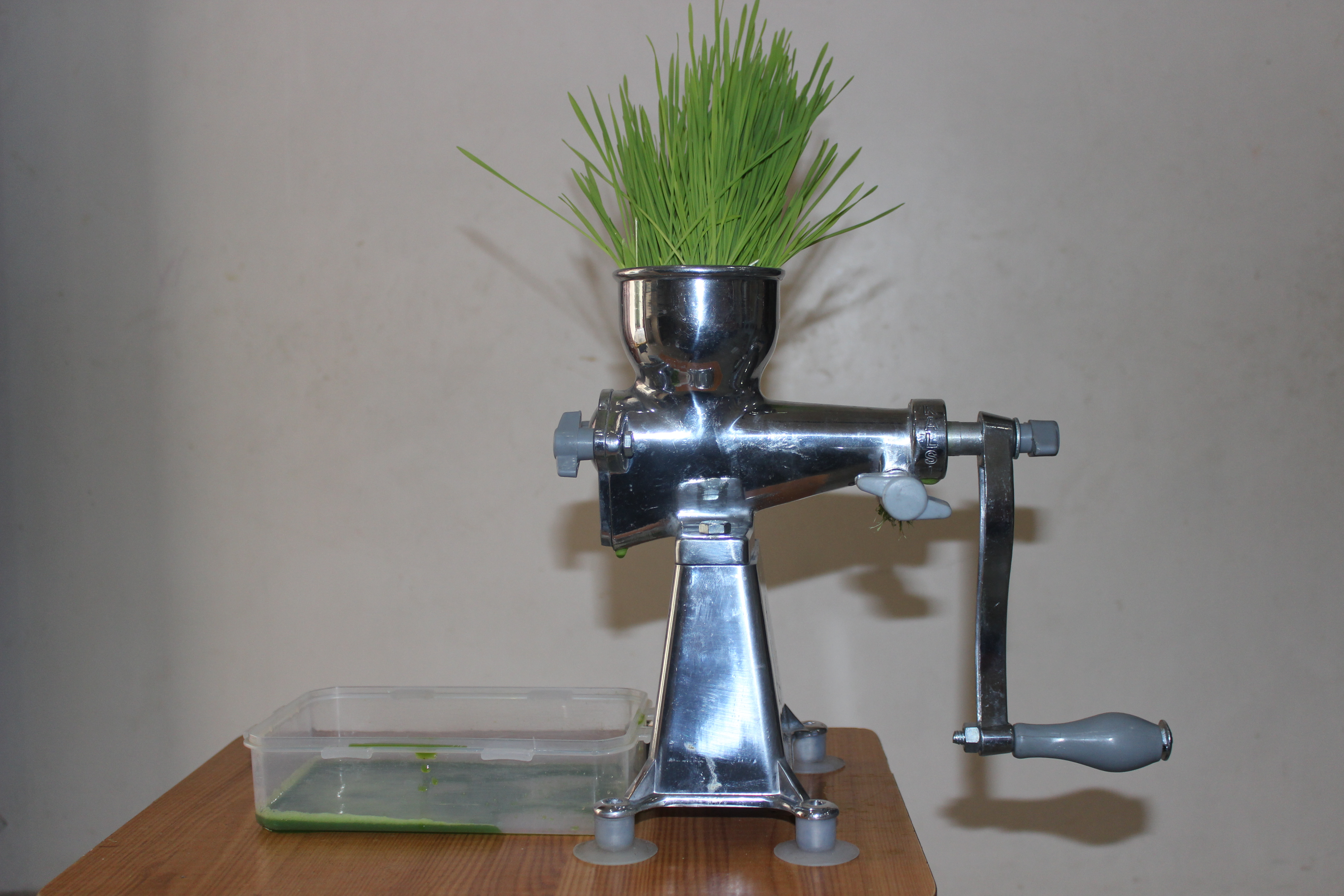 Extracting wheatgrass juice with a manual juicing machine.